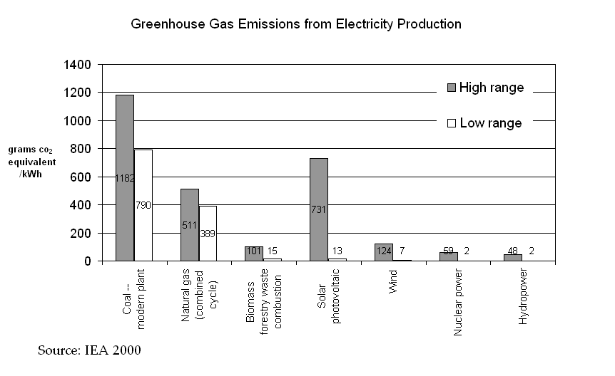 The data was published in "Hydropower-Internalised Costs and Externalised Benefits"; Frans H. Koch; International Energy Agency (IEA)-Implementing Agreement for Hydropower Technologies and Programmes; Ottawa, Canada, 2000. See below.